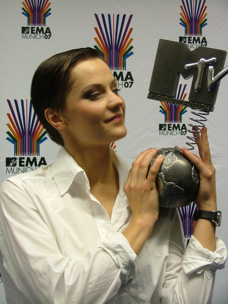 Jurga receives MTV EMA music award